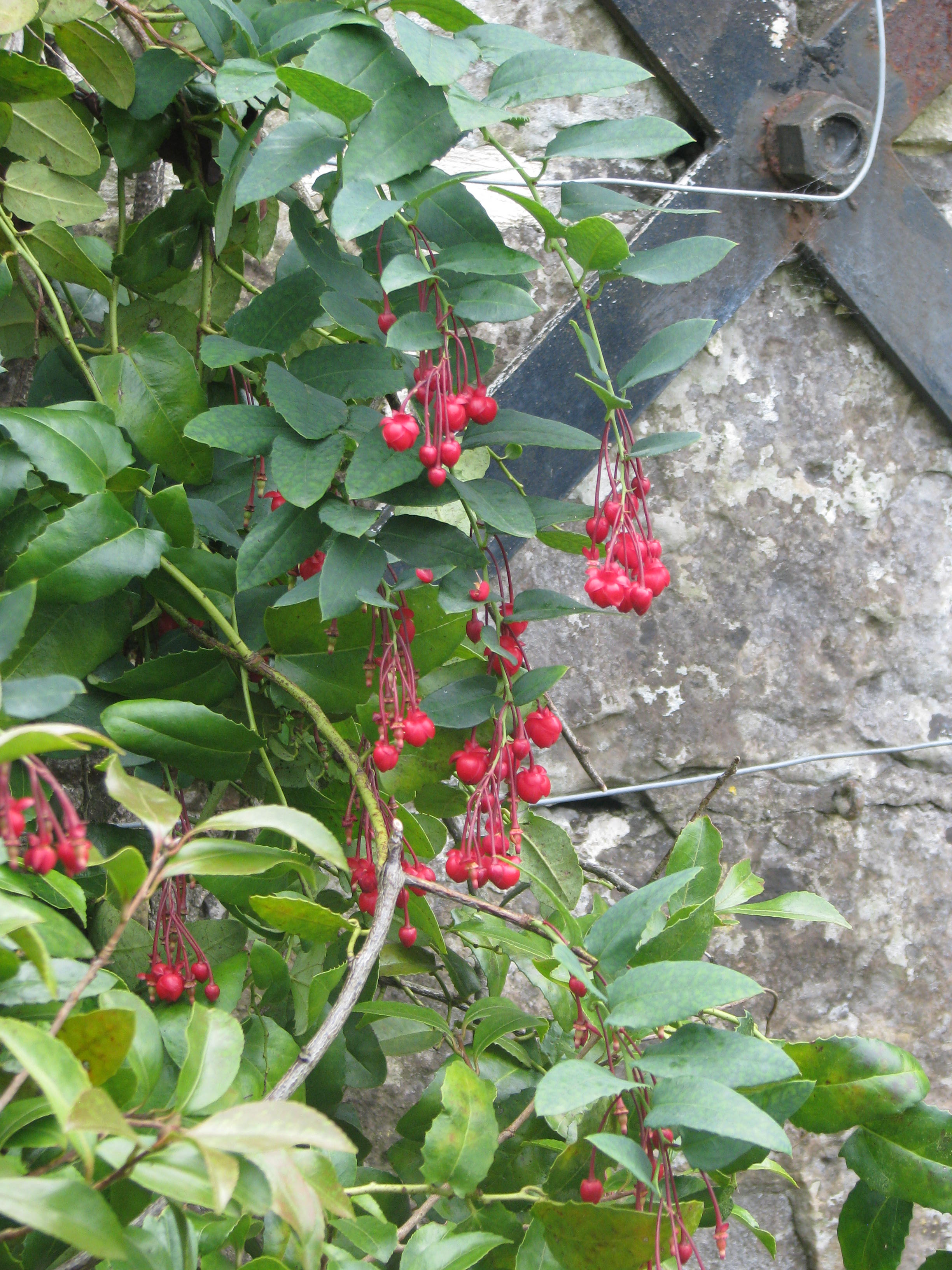 Doing very well in the walled garden at Wakehurst